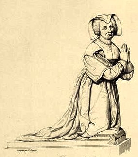 Chrétienne Leclerc Normandy Famille Le Clerc Louvre